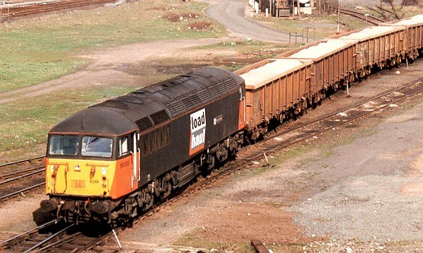 Trainload of salt from Boulby arriving at Tees Yard Opened in 1957 the Tees Marshalling Yard features prominently on the OS map of this area. The yard handles a variety of traffic associated with local industry: coal, limestone, steel, potash, salt and containers.